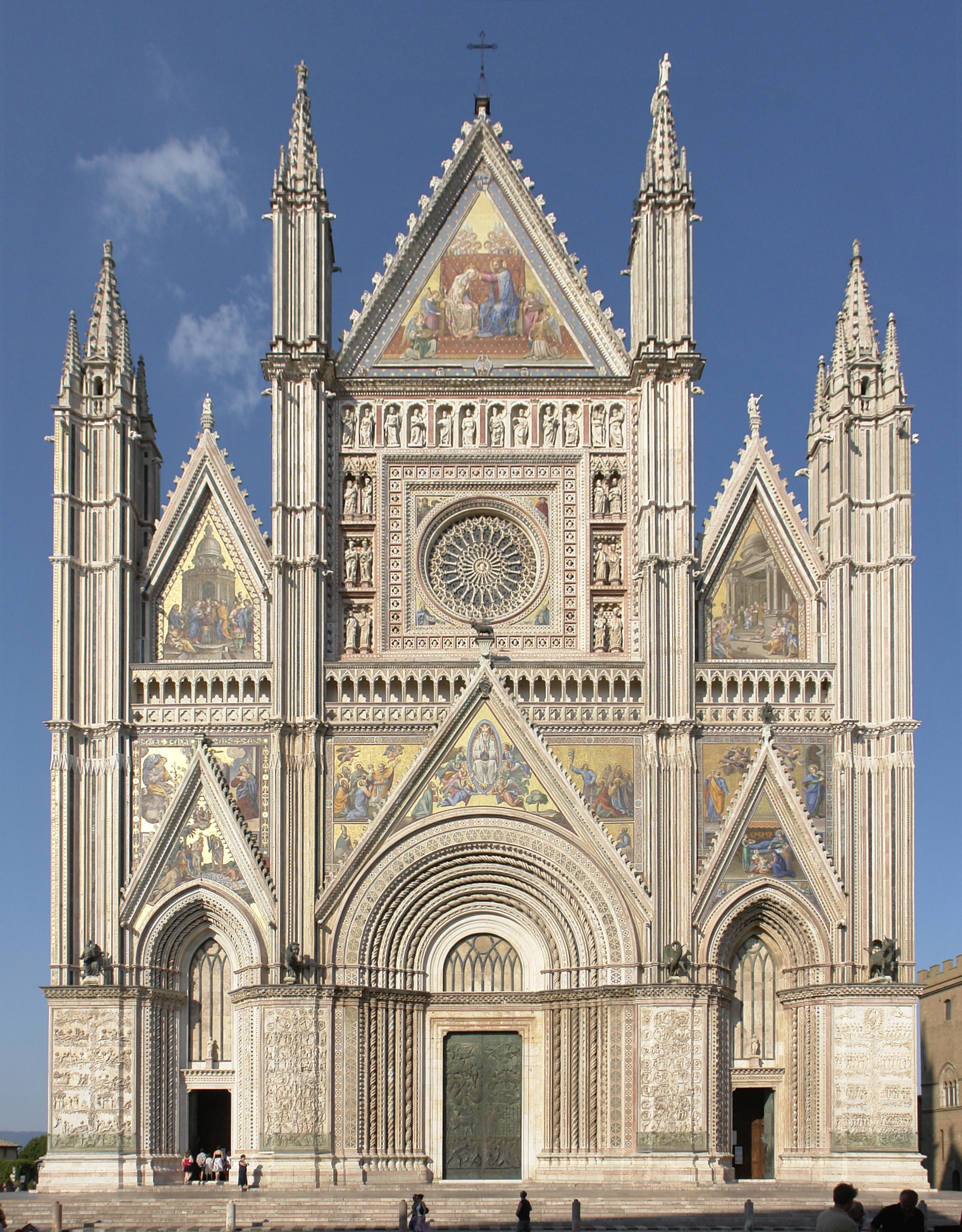 Kathedrale